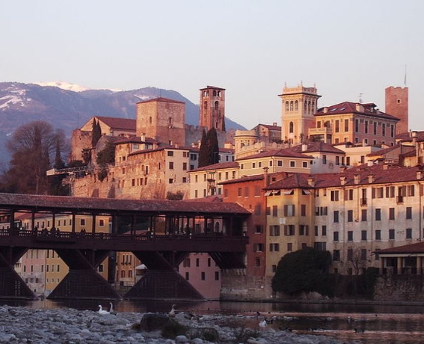 Bassano-location of the opera Oberto-detail